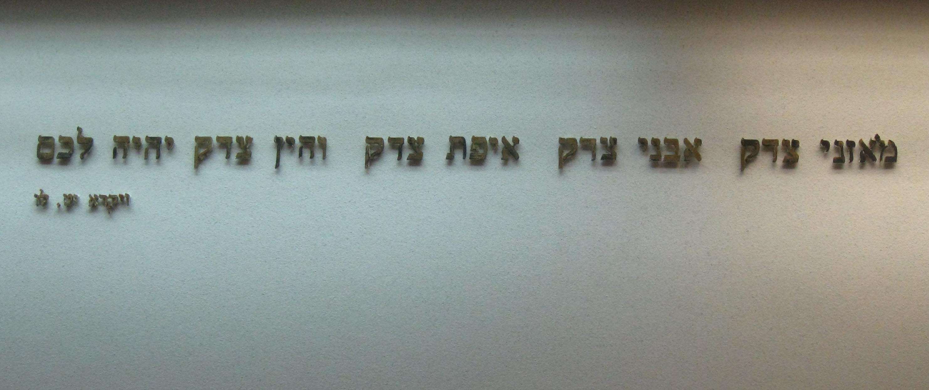 Leviticus 19:36 : "Use honest scales and honest weights, an honest ephah and an honest hin."